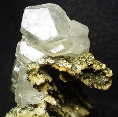 Calcite, Dolomite, Pyrite Locality: Munsterthal, Schwarzwald, Black Forest, Germany Size: miniature, 5.5 x 4 x 3.5 cm CALCITE with PYRITE on DOLOMITE A very attractive cluster of stacked flattened rhombohedra ("discs") with phantoms inside. The phantoms seem to be due to micro-pyrite inclusions and are oddly enough oriented at exactly the midlines of the discs. Very sculptural specimen!